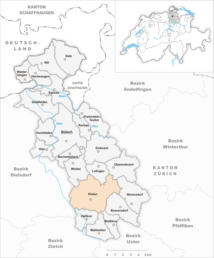 Municipality Kloten